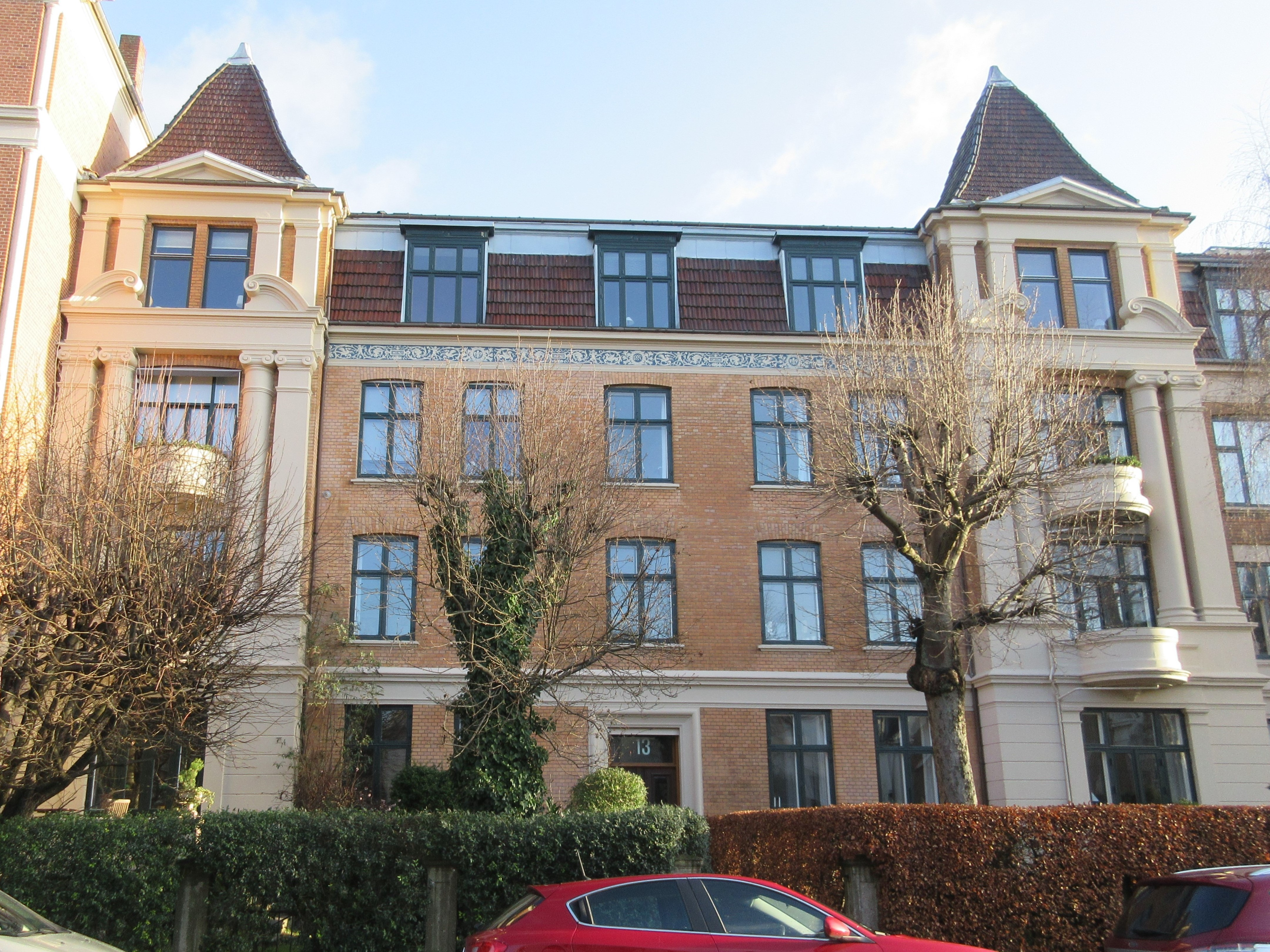 Kochsvej 13 in Frederiksberg, Copenhagen, Denmark